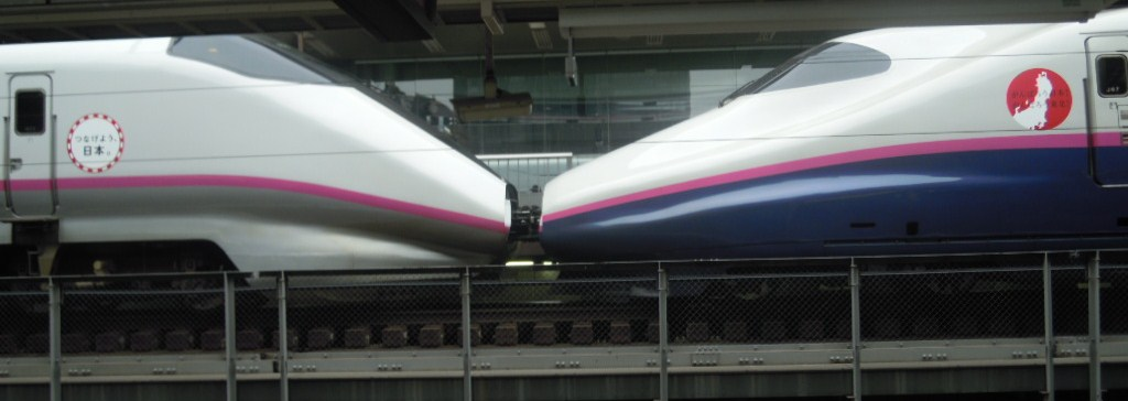 Shinkansen Series E3 R25 and E2 J67. Tokyo Station.